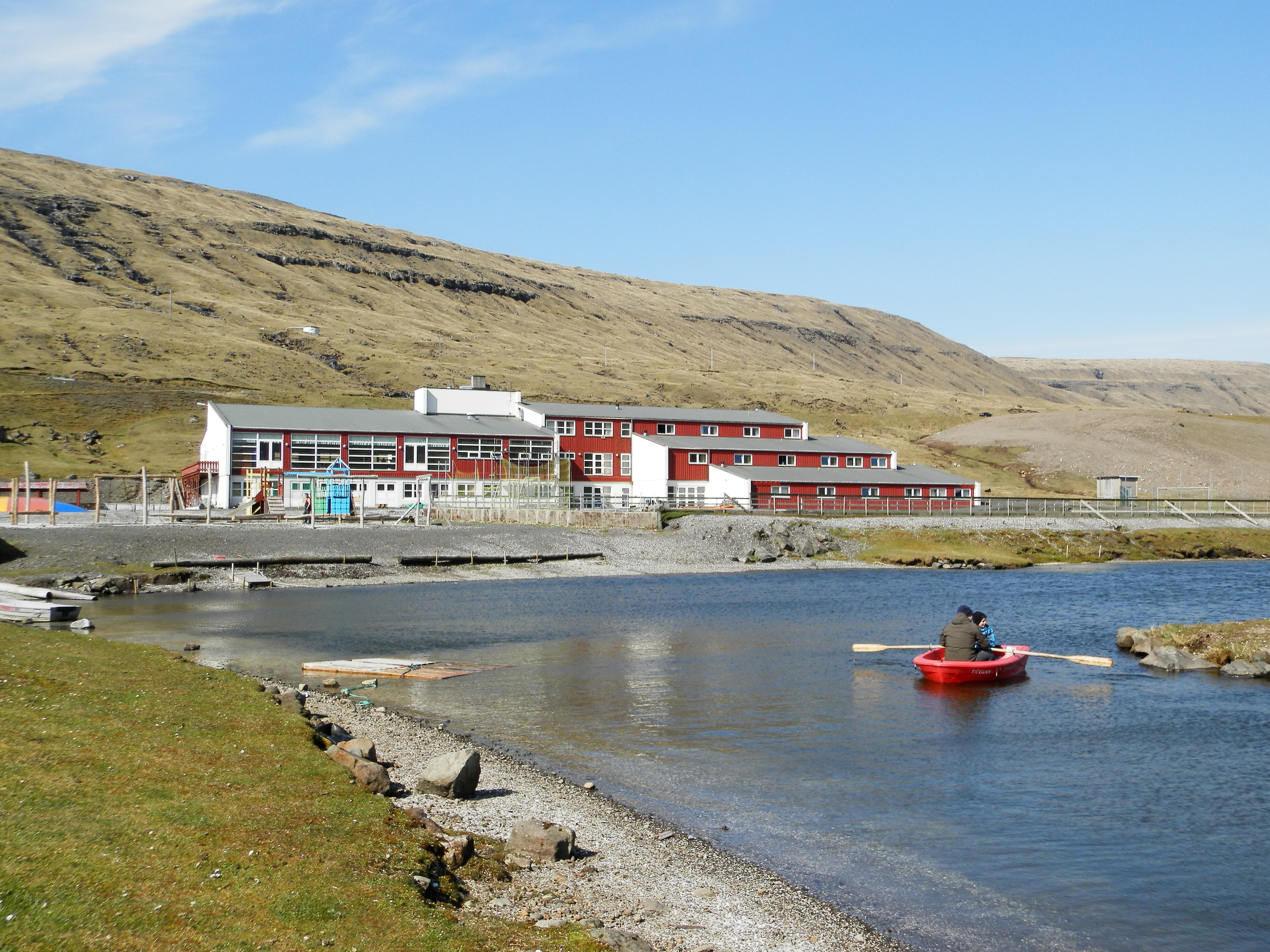 Nesvík, Streymoy, Faroe Islands in May 2013.